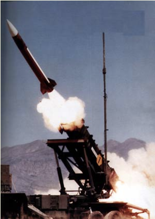 American Patriot Missile